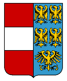 Coat of arms Zwettl